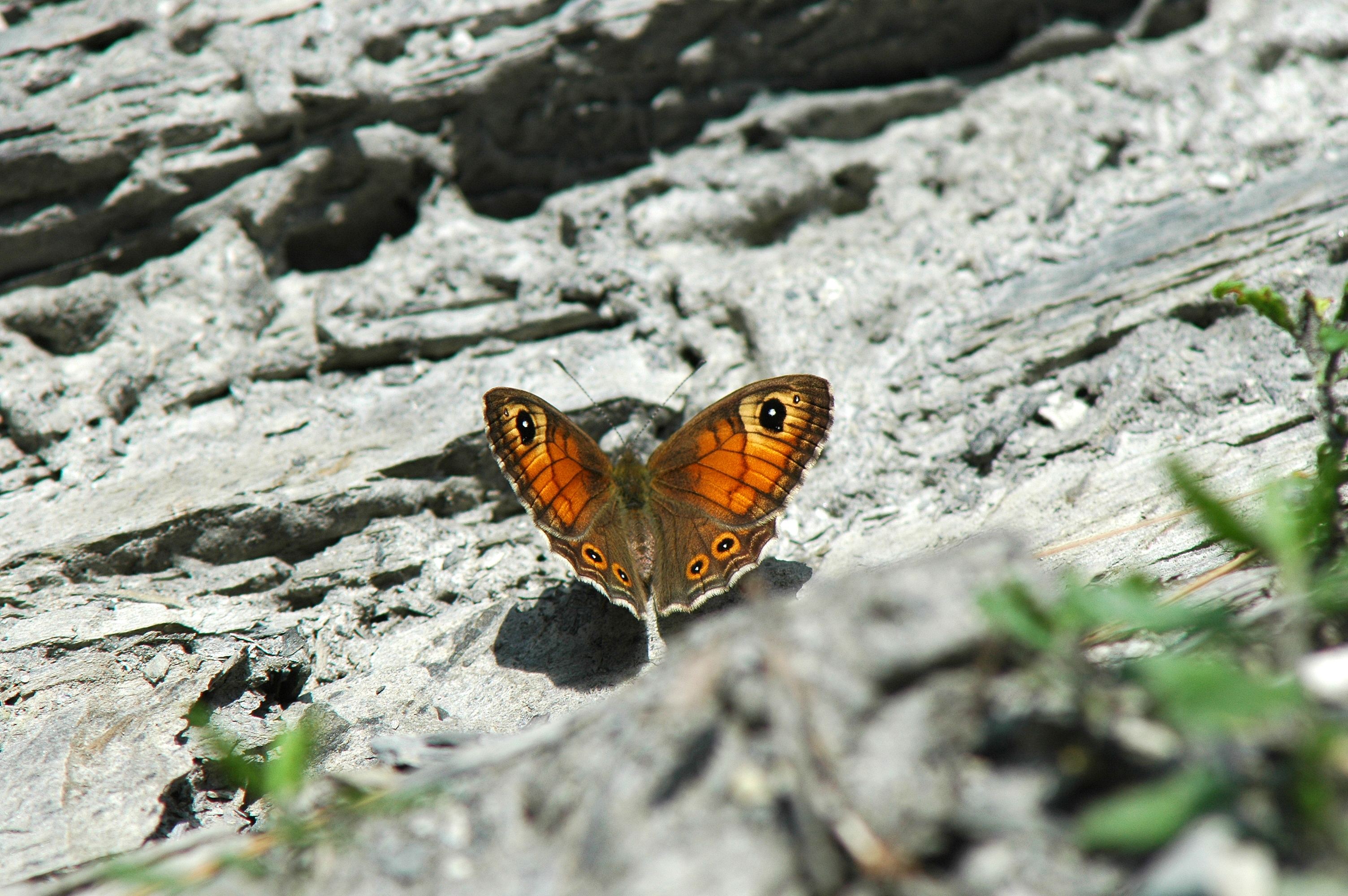 Female Large Wall butterfly (Lasiommata maera).